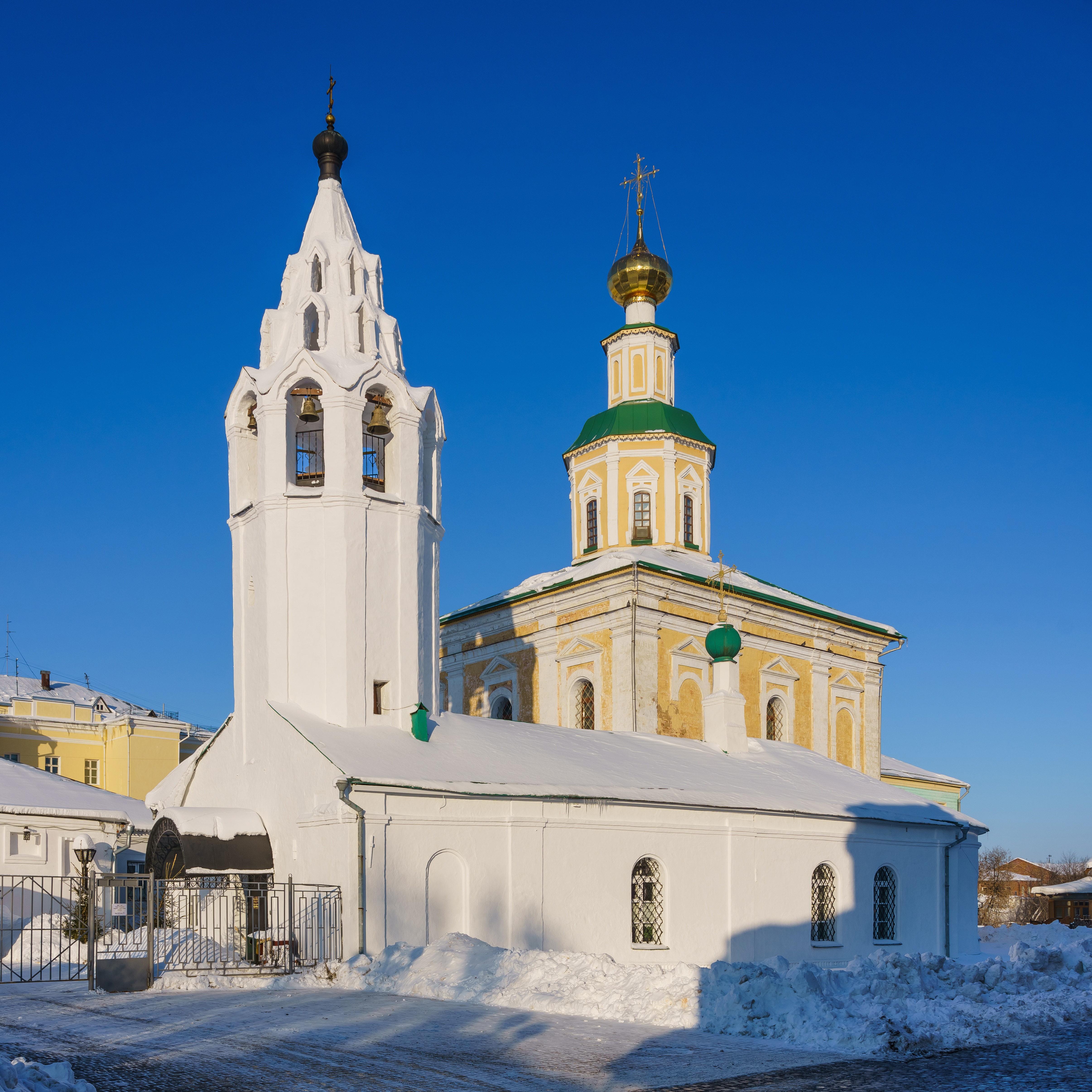 St. George Church in Vladimir, Russia